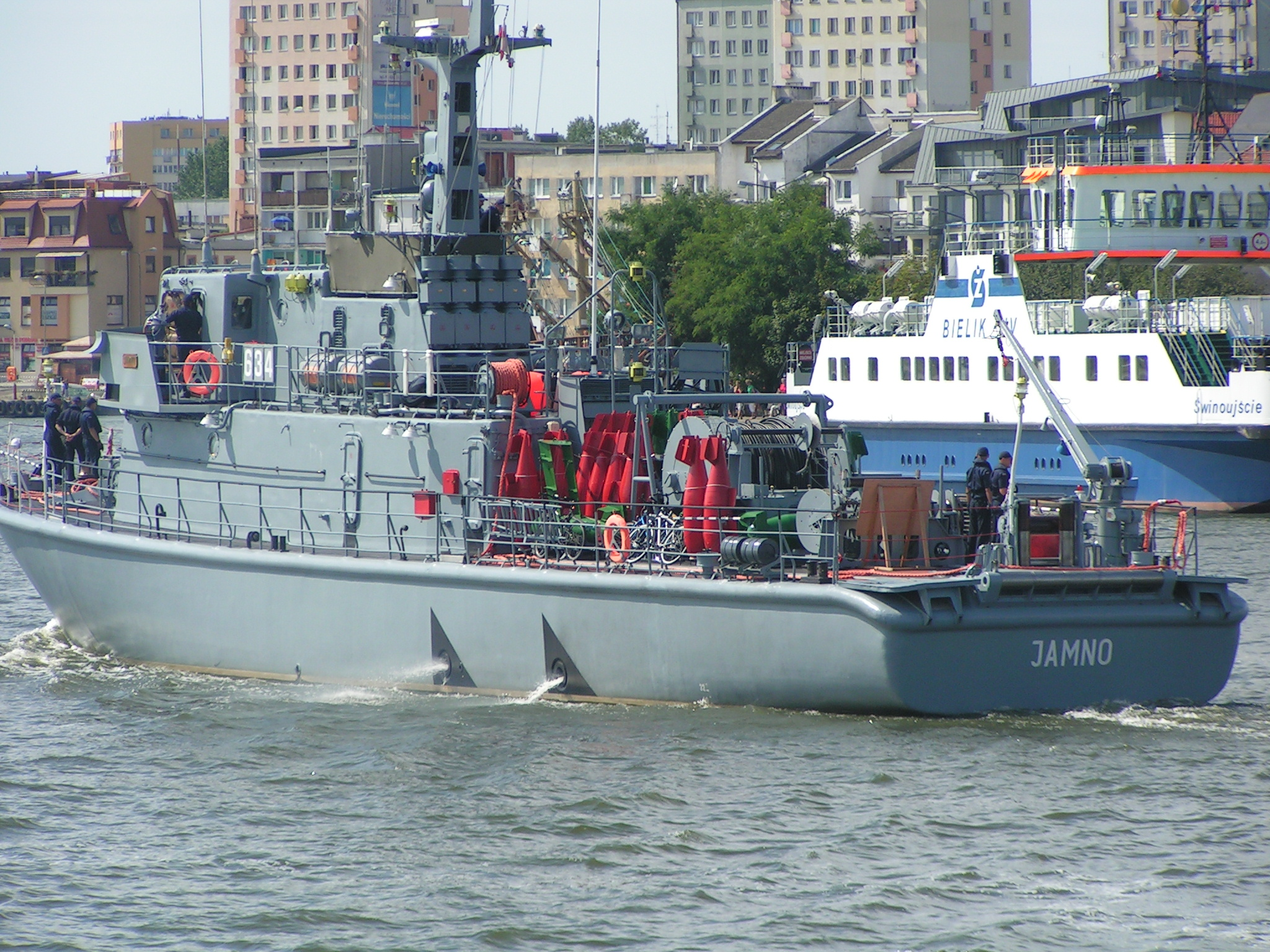 Minesweepers of Poland